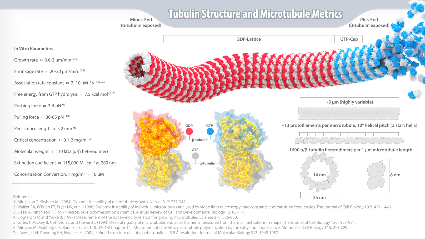 Tubulin infographic containing In vitro parameters that is handy for cytoskeletal researchers.